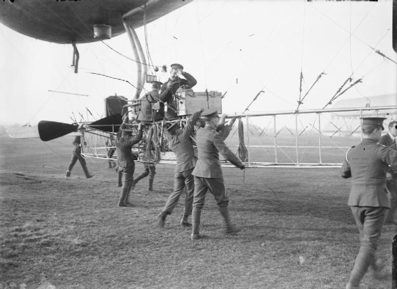 Aviation in Britain Before the First World War The gondola of army airship Beta, three to four feet off the ground, being moved by a number of army handlers.